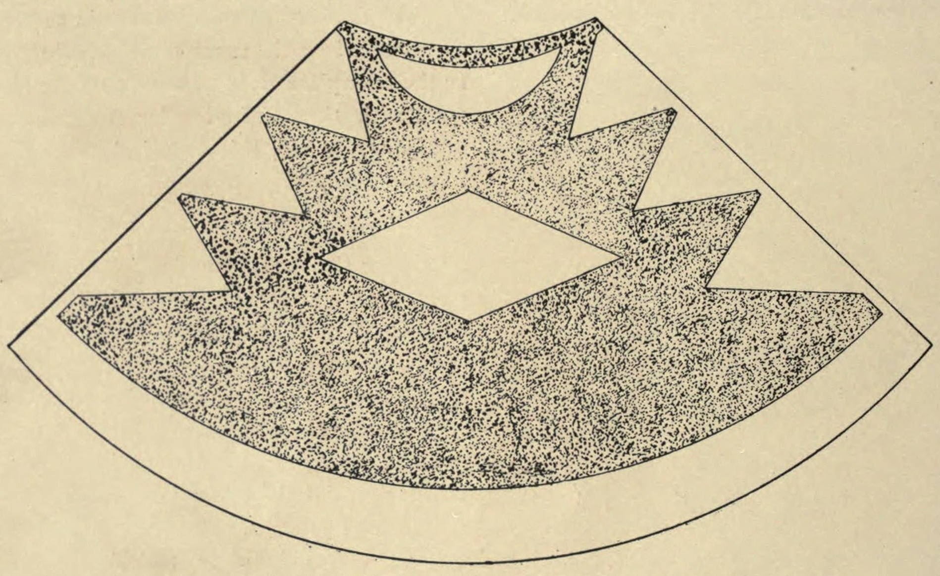 The Bloxam Cloak, Christchurch, N. Z., Memoirs Bishop Museum, Vol. VII, Fig. 29. An interesting cloak that I was enabled to examine while a guest of the owner in Christchurch, New Zealand, is shown in diagram No. 29. It belongs to A. R. Bloxam, Esq., and was obtained during the voyage of the Blonde of which his father Rev. Andrew Bloxam was naturalist and his uncle chaplain (1824-1825). The cloak is in fairly good condition although somewhat faded, and worn so as to show in places the tiny red feather often placed at the base of the feather of the ʻōʻō to simulate the orange of the more prized-mamo; hence a mottled appearance in the yellow portions of the cloak. Through the kindness of Mr. A. R. Bloxam we are furnished with a colored drawing of the cloak and very complete and careful measurements: the latter are as follows: Weight 4 pounds 8 ounces; circumference of neck 2 feet 3 inches; depth in front 4 feet, back 4 feet 5 inches; circumference around bottom 9 feet; lower yellow border 6 inches in front, 7.5 inches at middle of back; yellow rhomb in the middle is 27.5 x 13.5 inches. The yellow predominates leaving the design in red.